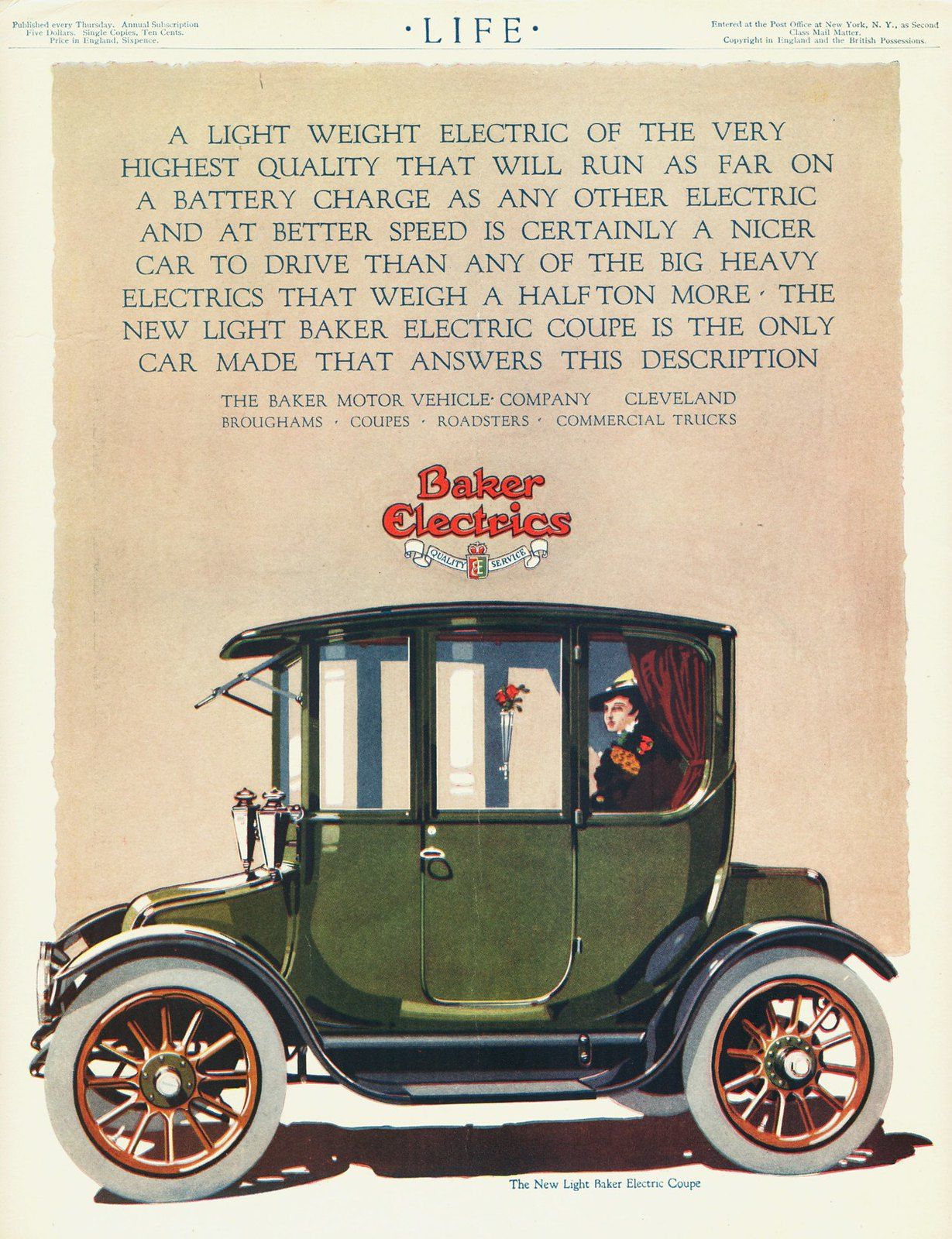 Baker Electric Coupe 1912-15